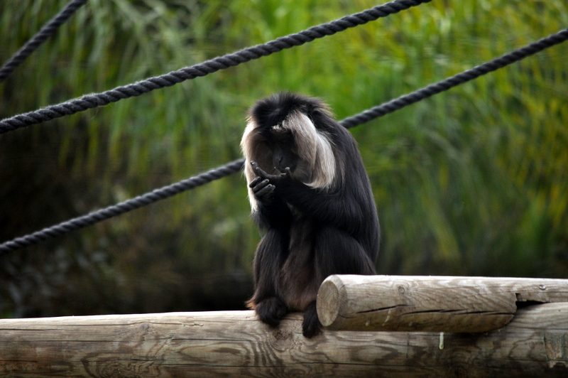 Nature and Colors